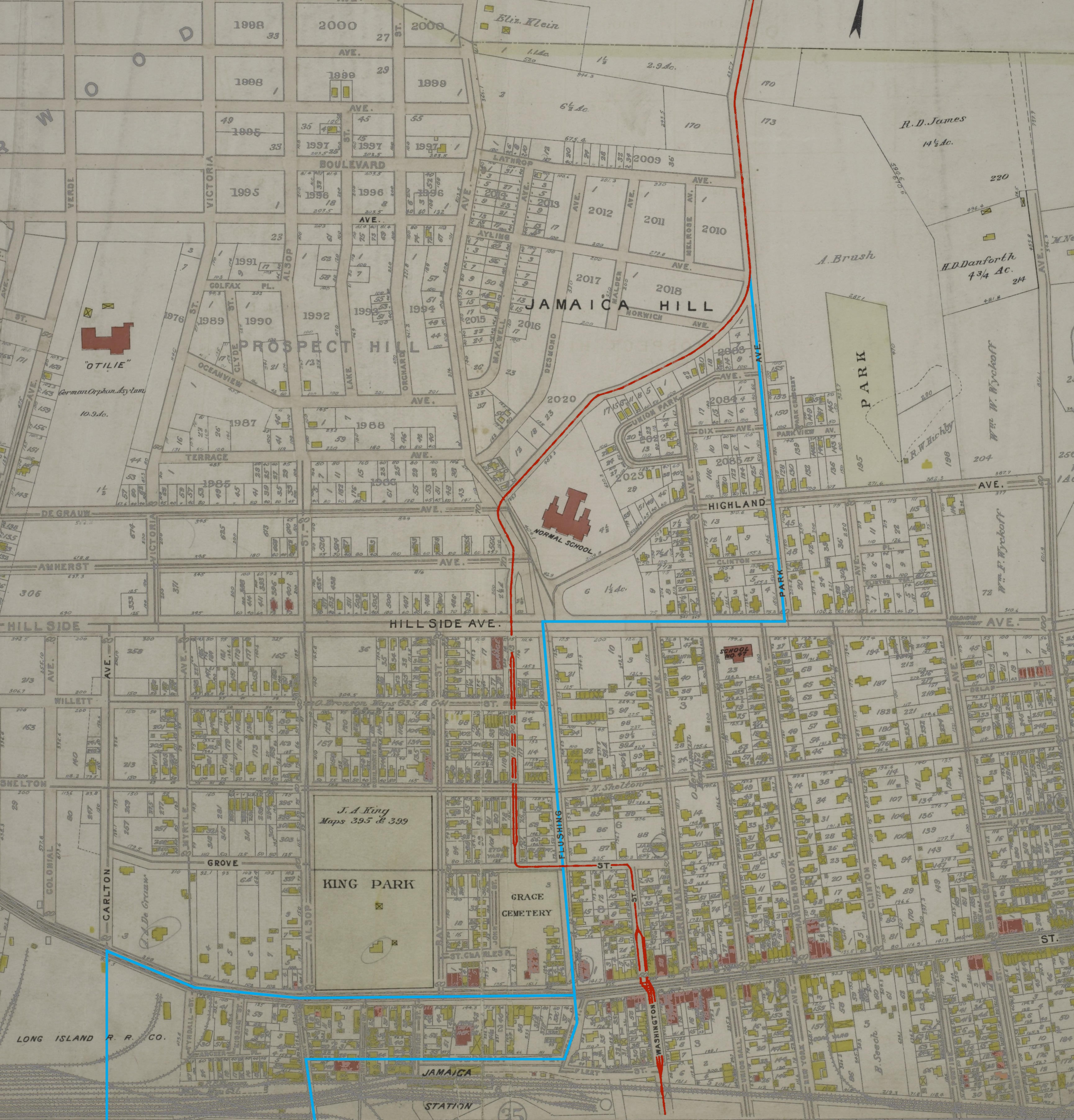 Plate 34 of the 1909 Bromley Atlas of the City of New York Borough of Queens, showing the general Downtown Jamaica area, including the neighborhoods of Briarwood and Jamaica Hills. Highlighted in orange is the route of the Flushing–Jamaica Streetcar Line, predecessor to the modern Q65 bus route, through the area. From Park Avenue (164th Street), the route turned west through a private right-of-way (Glenn Avenue) to Flushing Avenue (a.k.a. Jamaica and Flushing Road; today's Parsons Boulevard) near Hillside Avenue. The route proceeds west on a private right-of-way (155th Street) parallel to Flushing Avenue until Grove Street (90th Avenue), east on Grove, then south on Washington Street (160th Street) to the terminal area at Fulton Street (Jamaica Avenue). The terminus was shared with the Far Rockaway streetcar line, today's Q111 and Q113 buses, which proceeded south. Highlighted in light blue is the modern Q65 bus route, which follows 164th Street, Hillside Avenue, Parsons Boulevard, Jamaica Avenue (westbound / southbound) or Archer Avenue (eastbound / northbound) to the modern Jamaica LIRR station at Sutphin Boulevard. Original description: Plate 34: Bounded by Bischoff Pl., Lott Lane, Flushing Avenue, Lathrop Avenue, Park Avenue, Highland Avenue, Grand Avenue, Hillside Avenue, (Jamaica Estates) Madison Avenue, (Long Island R.R.) Fulton Street, Vanderbilt Avenue, Archer Street, Vanwyck Avenue, Newtown Creek Road, Vanderbilt Avenue, Hancock Street, (Maple Grove Cemetery) Hoffman Blvd., Hutton Avenue and Knoll Avenue.]; Atlases of New York city. / Atlas of the city of New York, borough of Queens, Long Island City, Newtown, Flushing, Jamaica, Far Rockaway, from actual surveys and official plans / by George W. and Walter S. Bromley.